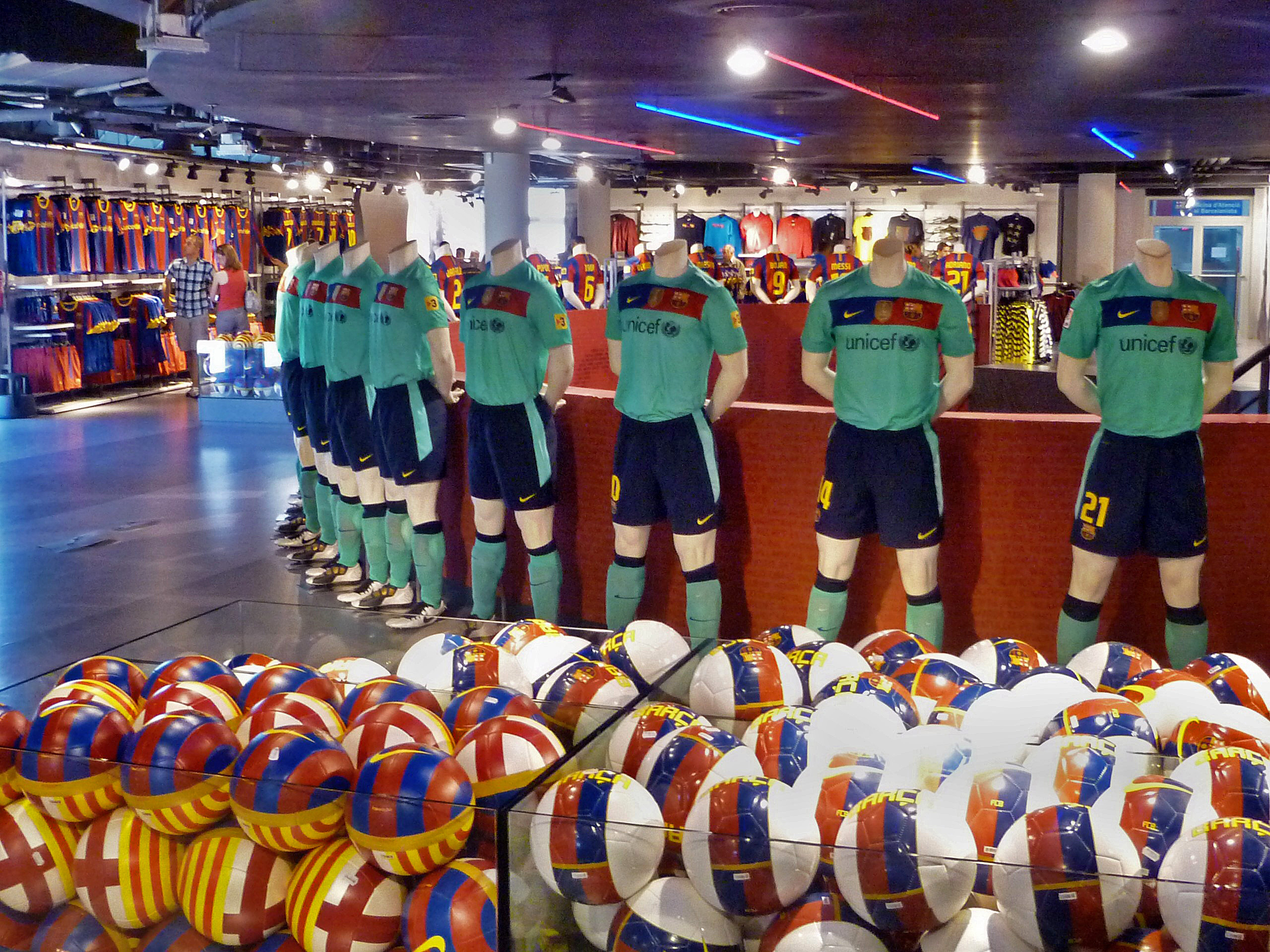 Outfit of the players of FC Barcelona, Barcelona, Catalonia, Spain